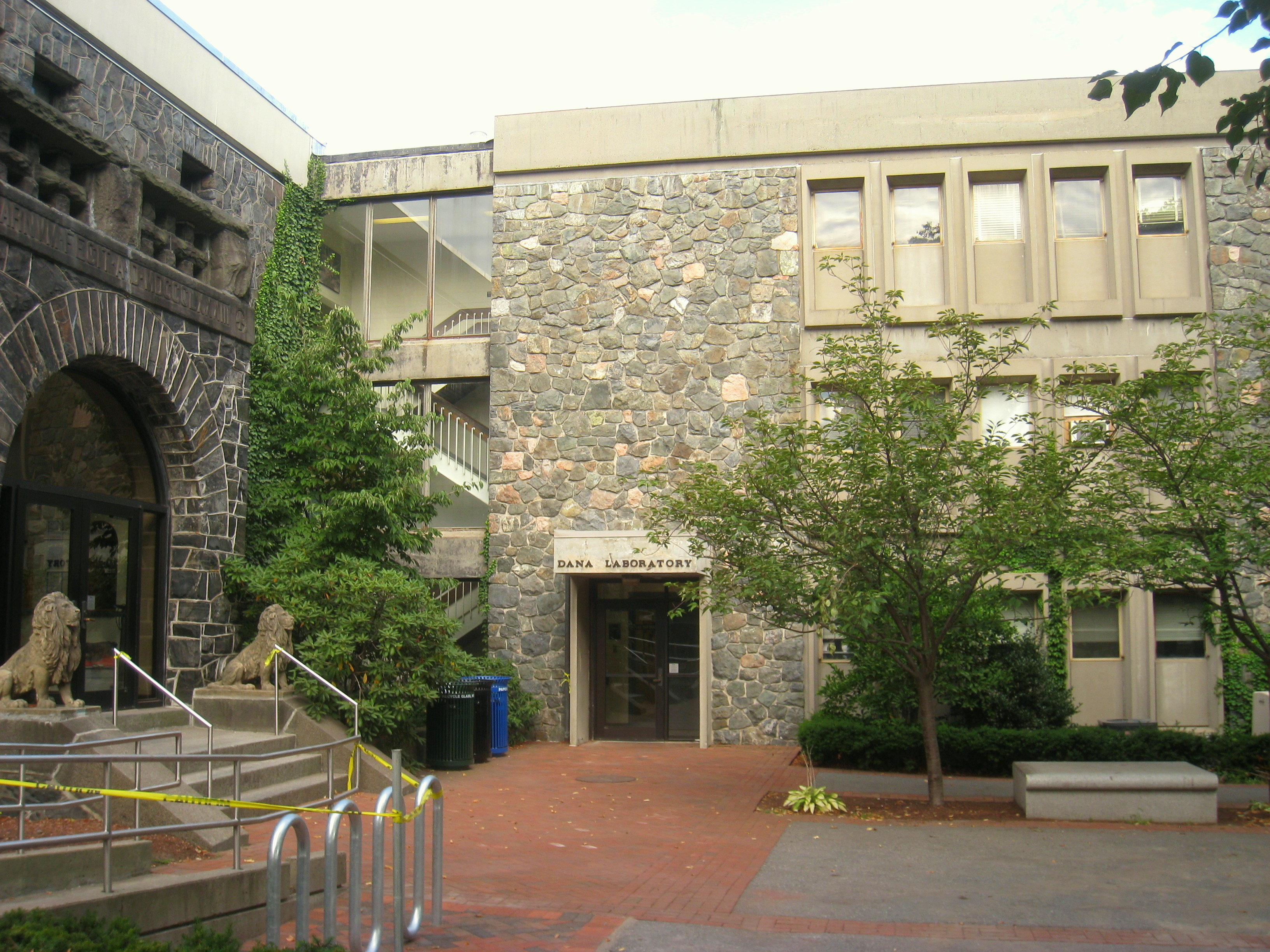 Dana Laboratory, at Tufts University, Medford, Massachusetts, USA.